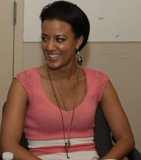 My own work. Heather Hemmens.